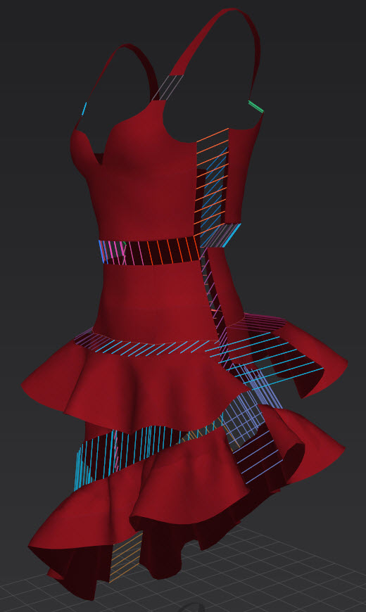 Digital 3D Clothes made with Digital Sewing Machine Tools in Marvelous Designer Software